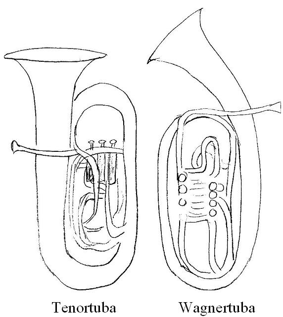 Wagner tuba and normal tenor tuba